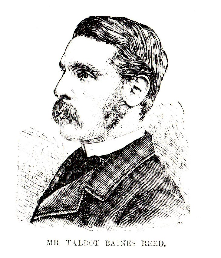 Pen-and-ink portrait of Talbot Baines Reed (1852-93)